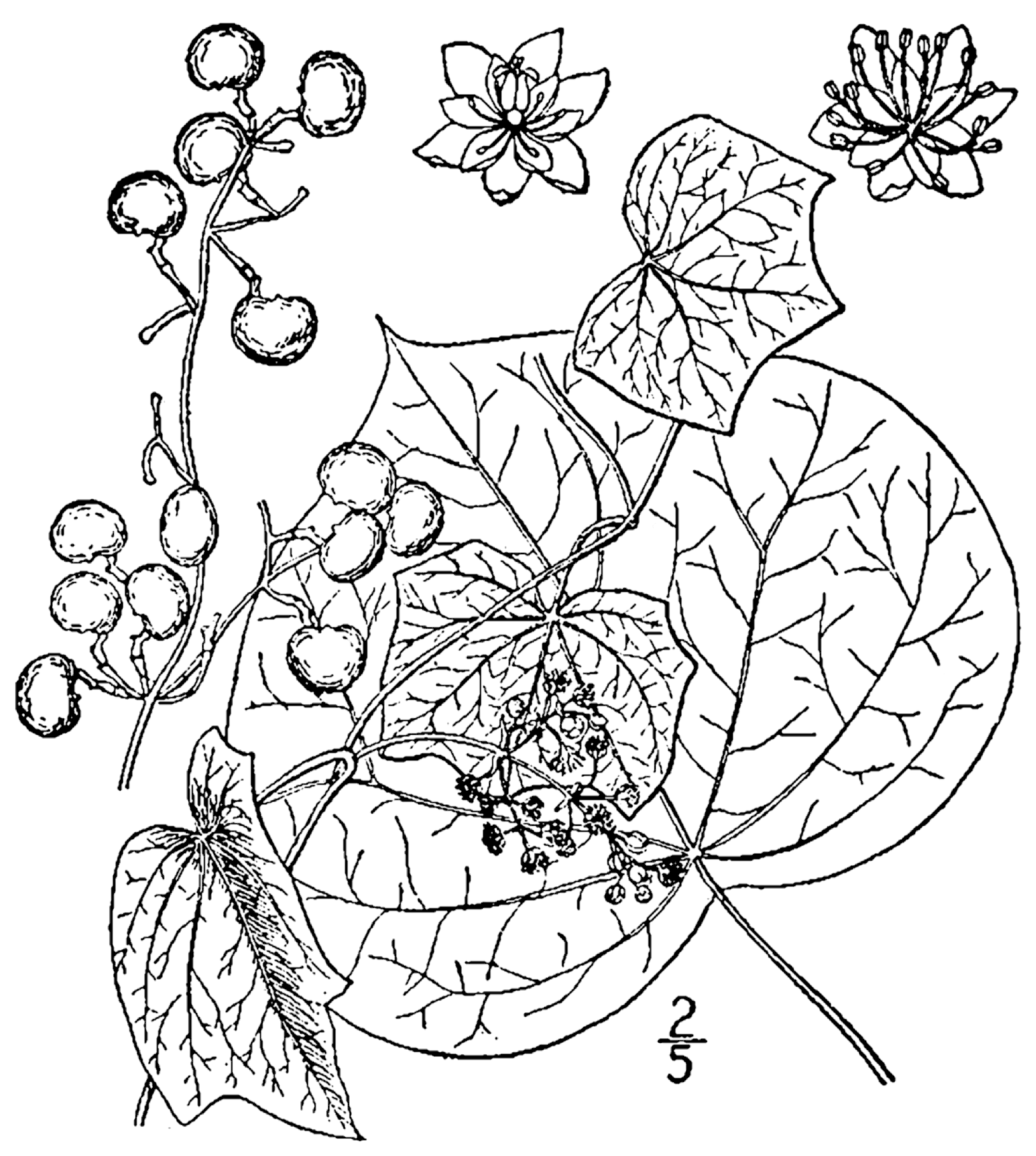 Menispermum canadense L. - common moonseed